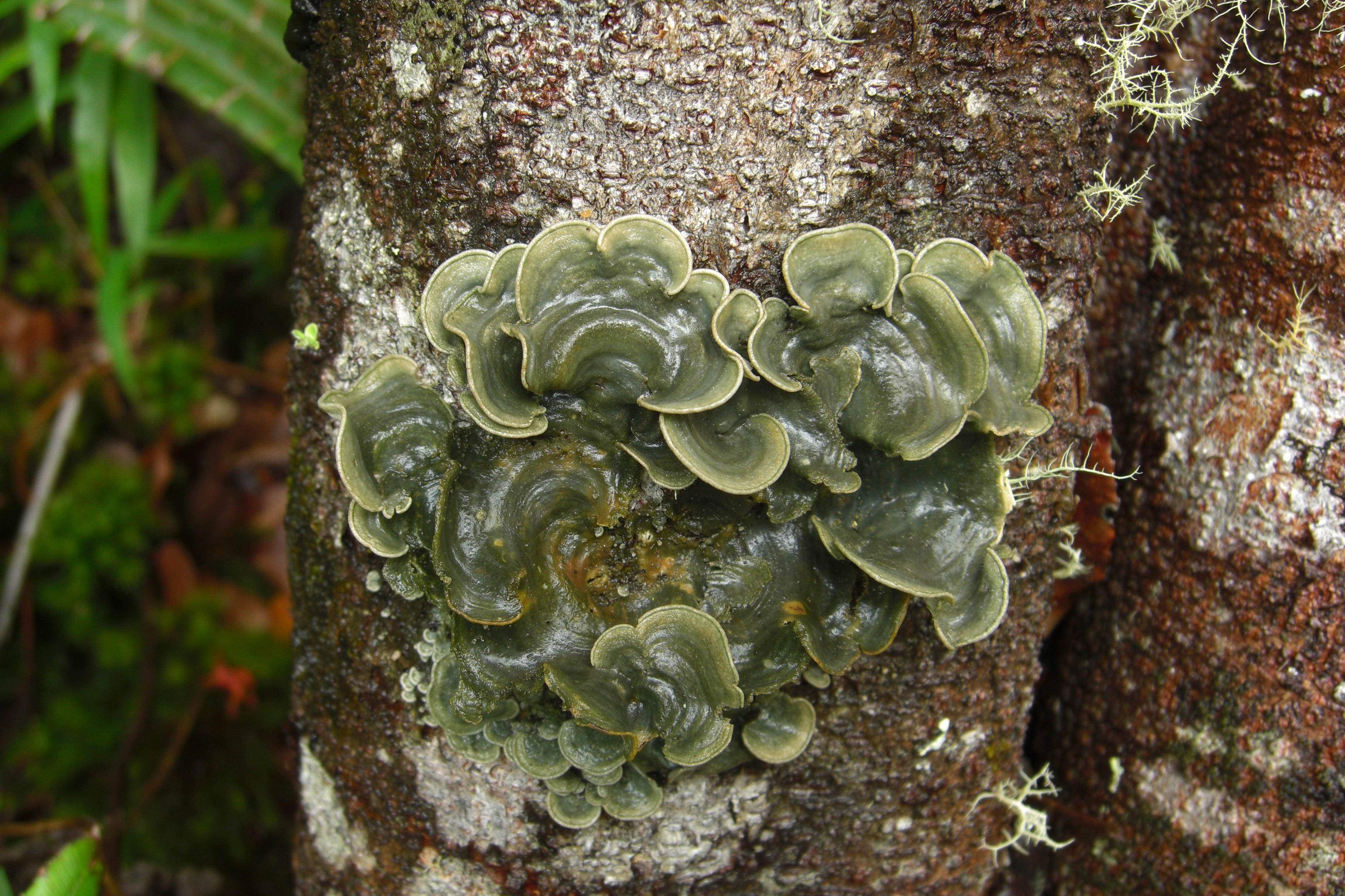 Cora glabrata (Spreng.) Fr. 20081221 Parque Nacional Puyheue, Chile This very thin fungus appears to have an algal layer just under the surface when wet, but disintigrates rapidly after it dries. (See comments under other photo.)